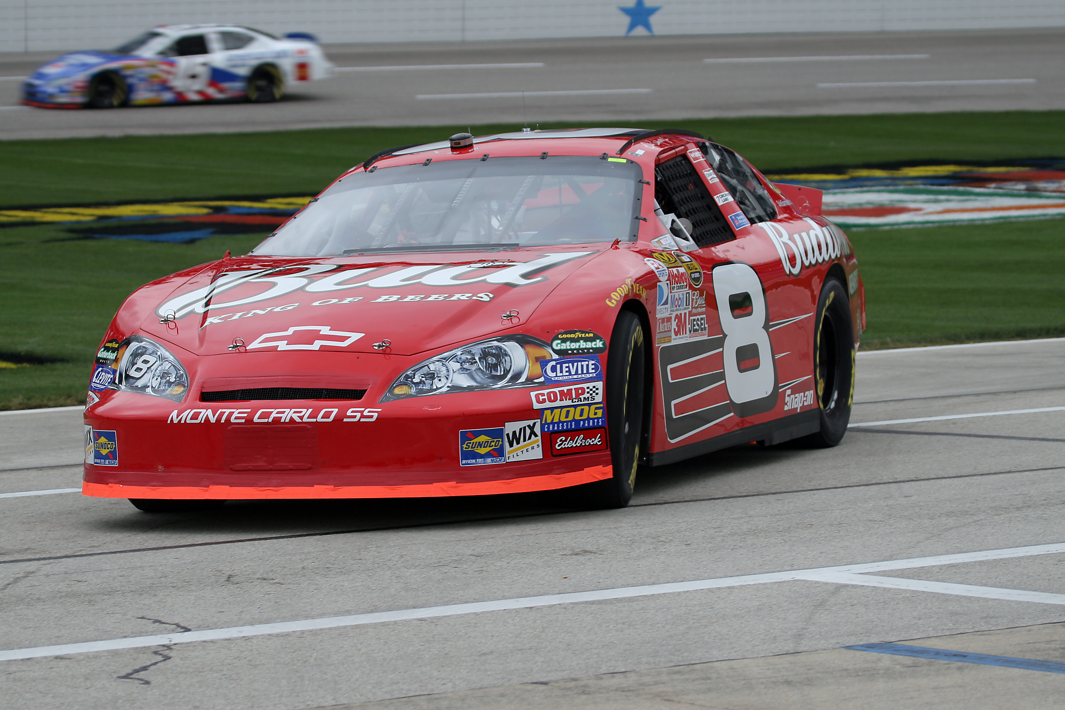 NASCAR driver Dale Earnhardt, Jr. at Texas Motor Speedway. That's Kyle Petty in the background.